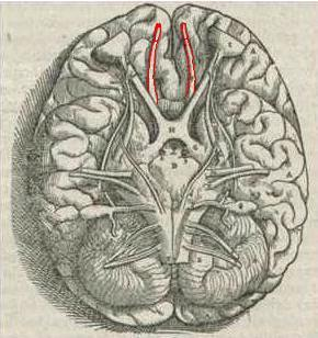 Summary en:1543 Andreas Vesalius' Fabrica Olfactory bulbs and olfactory nerve outlined in red 15:58, 10 December 2005 Ancheta Wis 290x308 (24858 bytes) ( :en:1543 :en:Andreas Vesalius ' Fabrica :en:Olfactory bulbs and :en:olfactory nerve outlined in red)